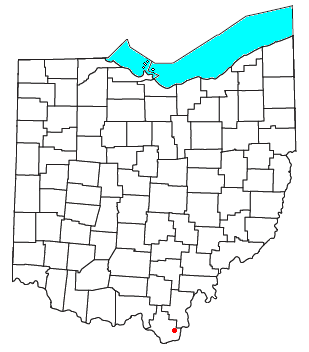 Locator map of the unincorporated community of Scottown in Lawrence County, Ohio, United States.